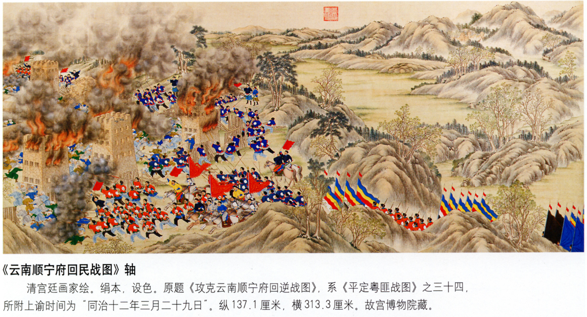 A battle of the Panthay Rebellion (1856–1873) from the set "Victory over the Muslims", set of twelve paintings in ink and color on silk, 136.0x310.0 cm. Palace Museum, Beijing.